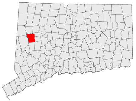 Locator map for Washington, Connecticut